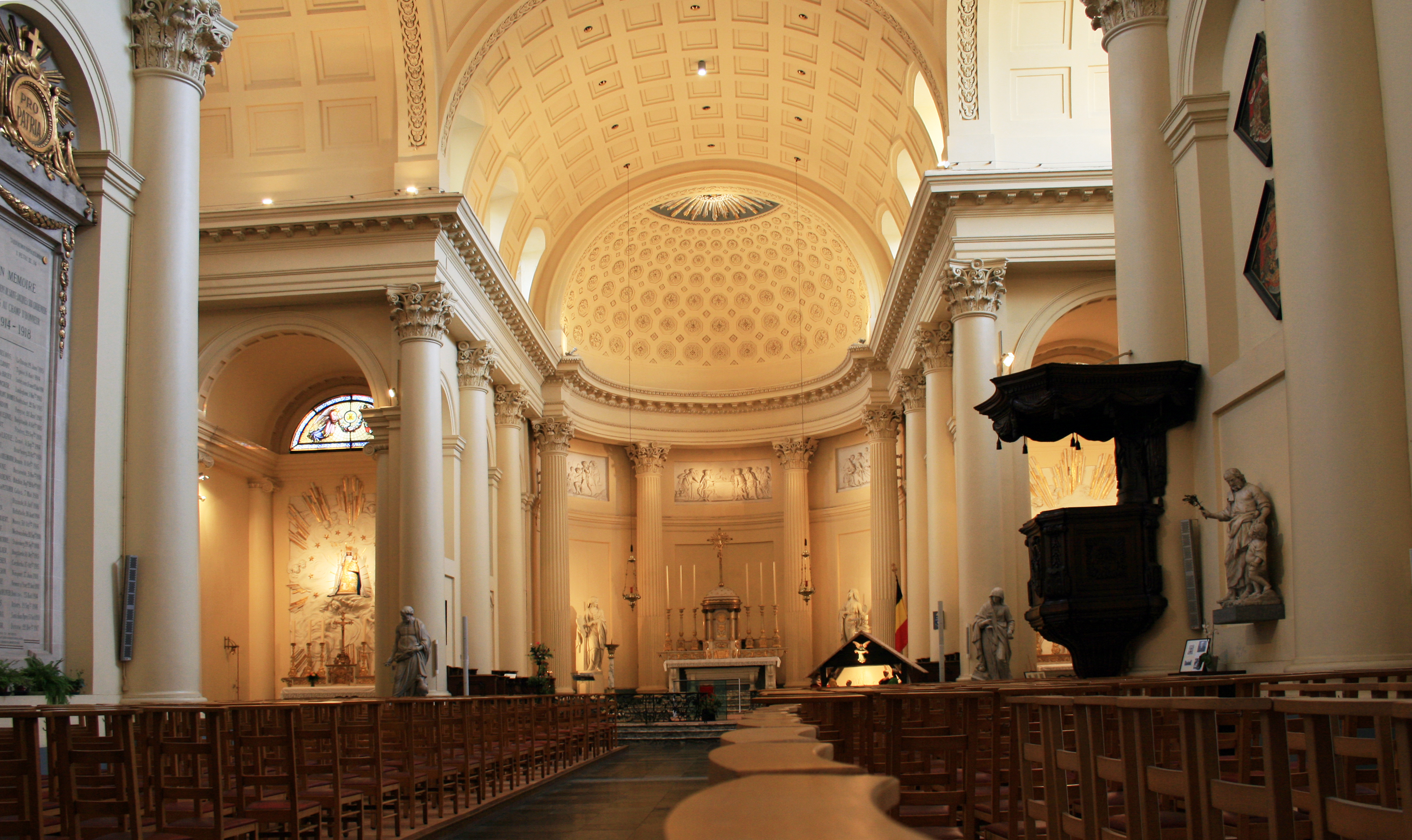 Interior of church Church of Saint Jacques-sur-Coudenberg in Brussels, Belgium